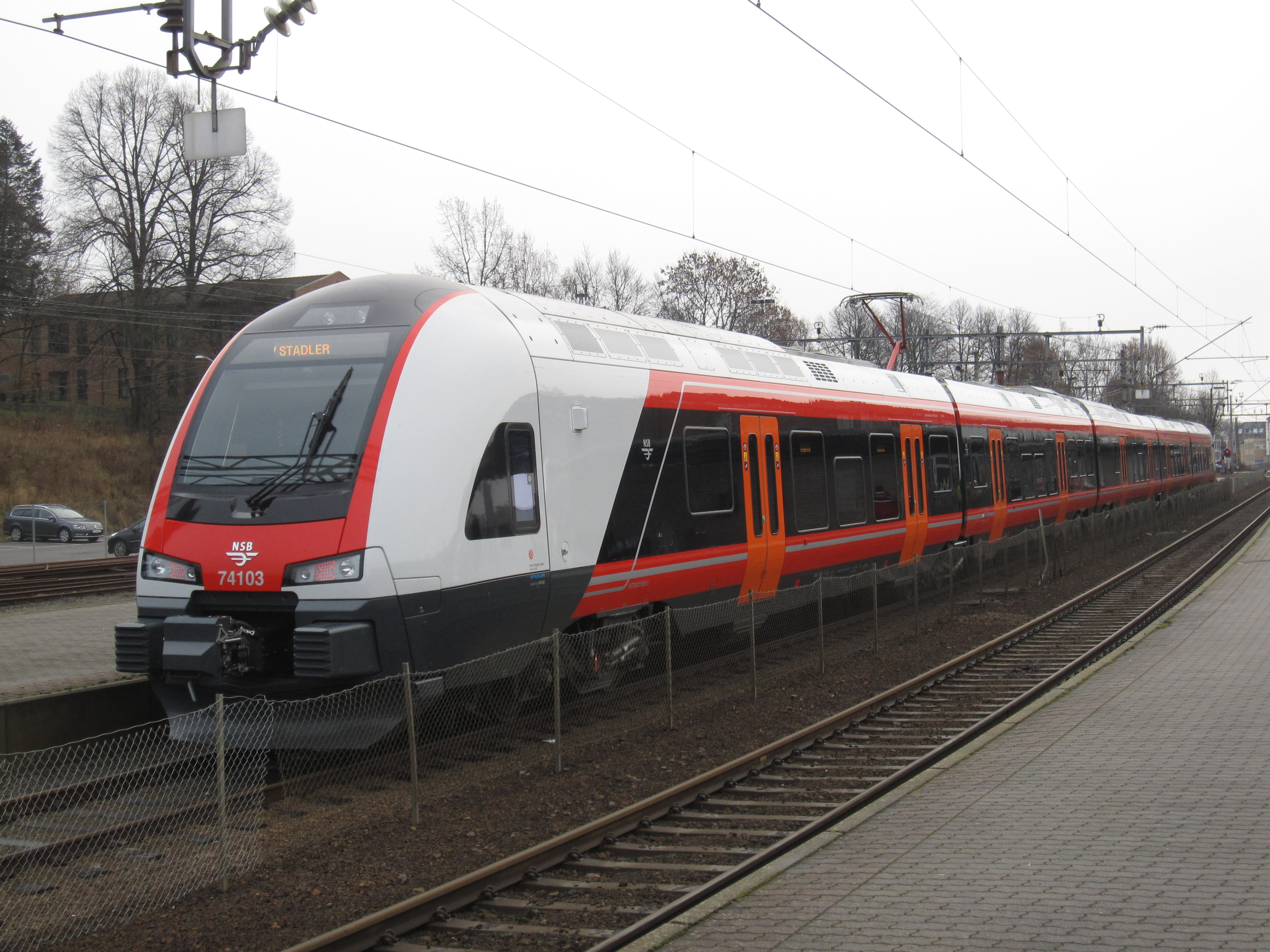 Norwegian State Railways (NSB) Class 74 (Stadler Flirt) at Tønsberg Station